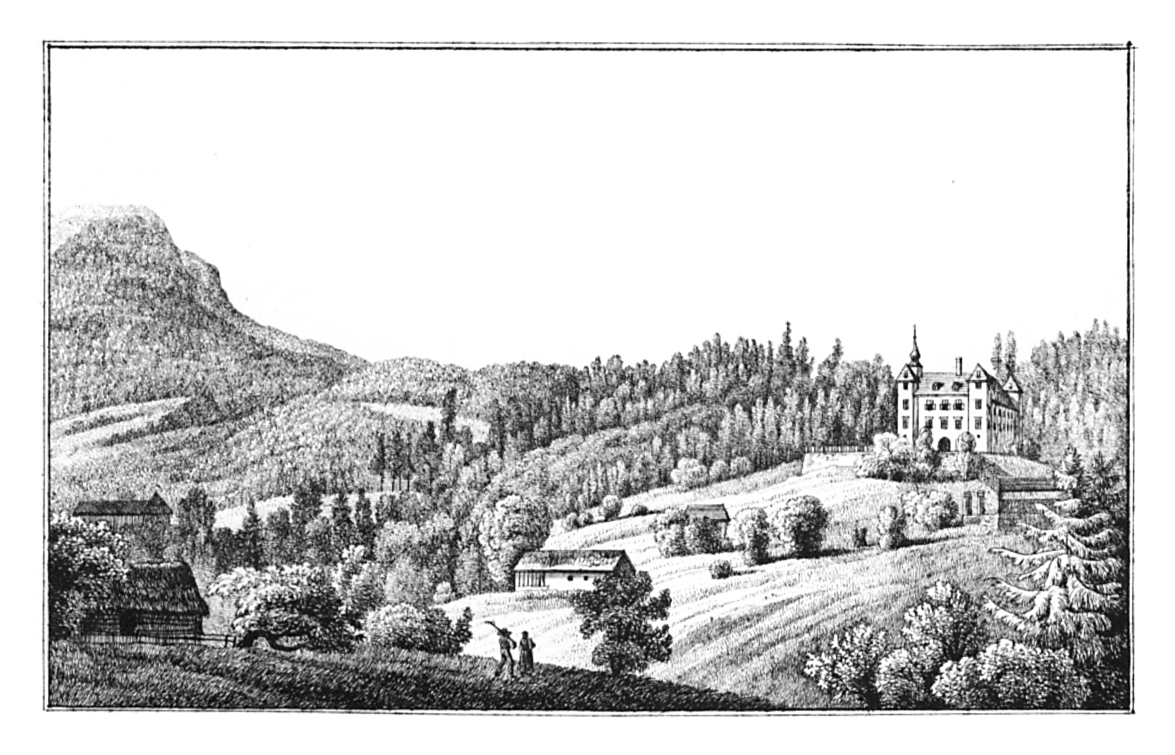 J. F. Kaiser - lithographirte Ansichten der Steyermärkischen Städte, Märkte und Schlösser, Graz 1824-1833 Joseph Franz Kaiser (1786–1859) Alternative names J. F. KaiserDescriptionAustrian printer and editorDate of birth/death 11 March 1786 19 September 1859Location of birth/death Graz (Styria) GrazAuthority control : Q1499963 VIAF: 30629353 ISNI: 0000 0000 3083 0153 LCCN: n87141671 GND: 129880159 NLP: A24960305 WorldCat creator QS:P170,Q1499963 . Scanprojekt Community Projektbudget 2012 This scan or this PDF-file was created within the GLAM-project Bookscanning, supported by Wikimedia Germany and Wikimedia Austria as a part of the community-project to capture books, documents and pictures which are not eligible to copyright or for which the copyright has expired. This document describes or depicts an object which is located in Austria today. Send requests for uncompressed scans to Hubertl. This work is in the public domain in its country of origin and other countries and areas where the copyright term is the author's life plus 100 years or less. You must also include a United States public domain tag to indicate why this work is in the public domain in the United States. This file has been identified as being free of known restrictions under copyright law, including all related and neighboring rights.